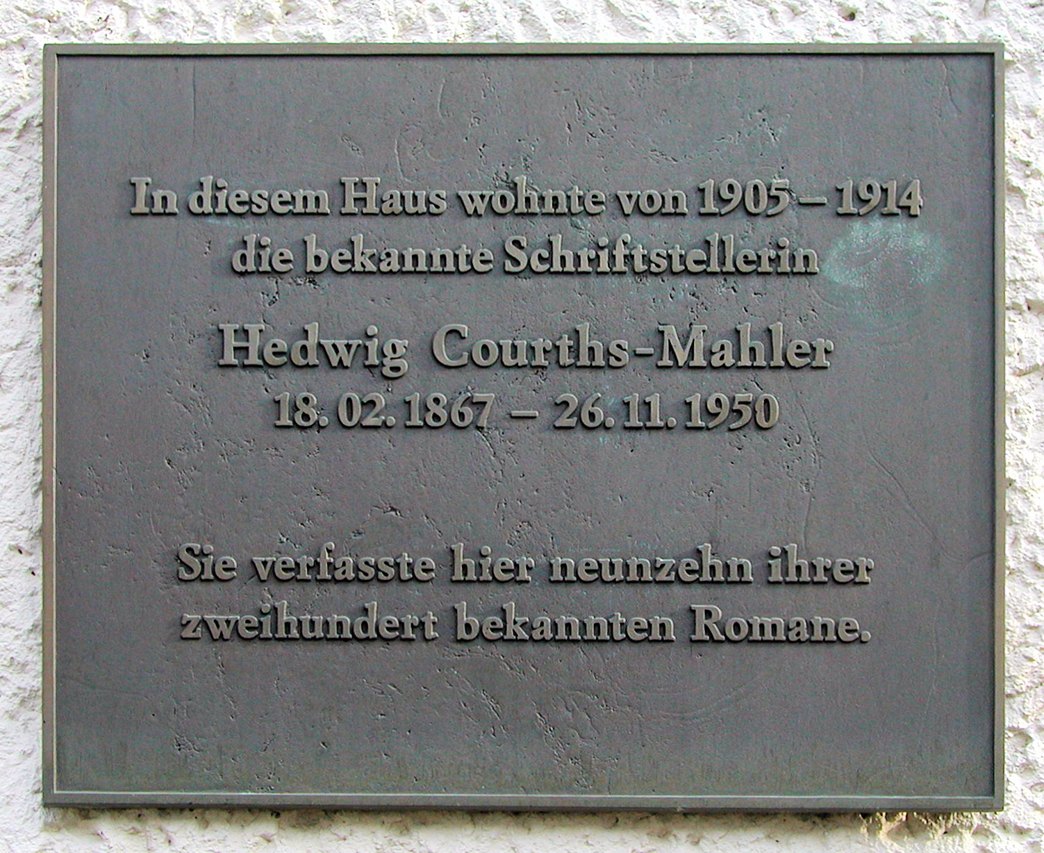 Memorial plaque, Hedwig Courths-Mahler, Dönhoffstraße 11, Berlin-Karlshorst, Germany Koordinate:52°29′5″N 13°31′12″E / 52.48472°N 13.52°E